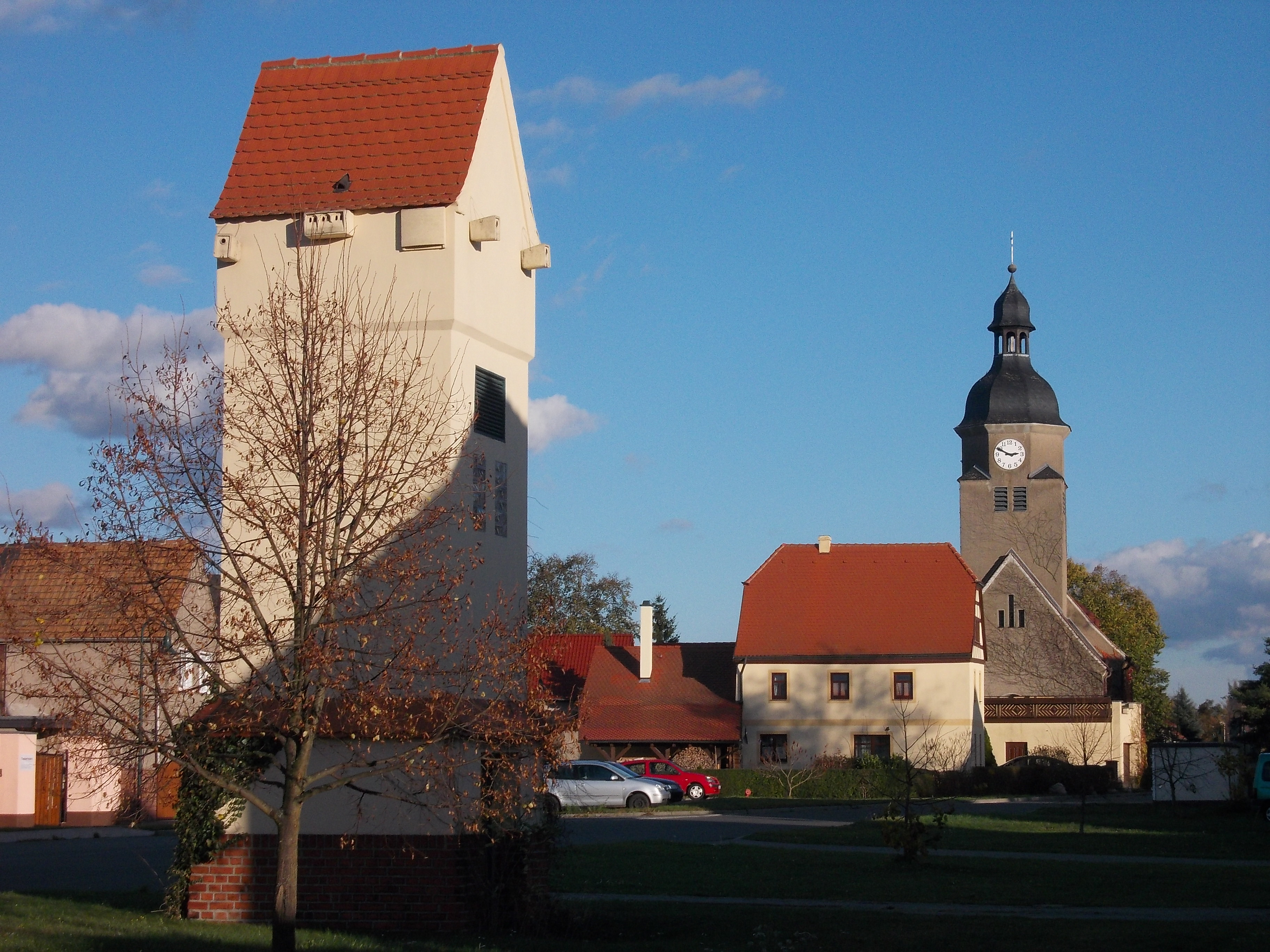 Doberschütz church and distribution substation (Nordsachsen district, Saxony)